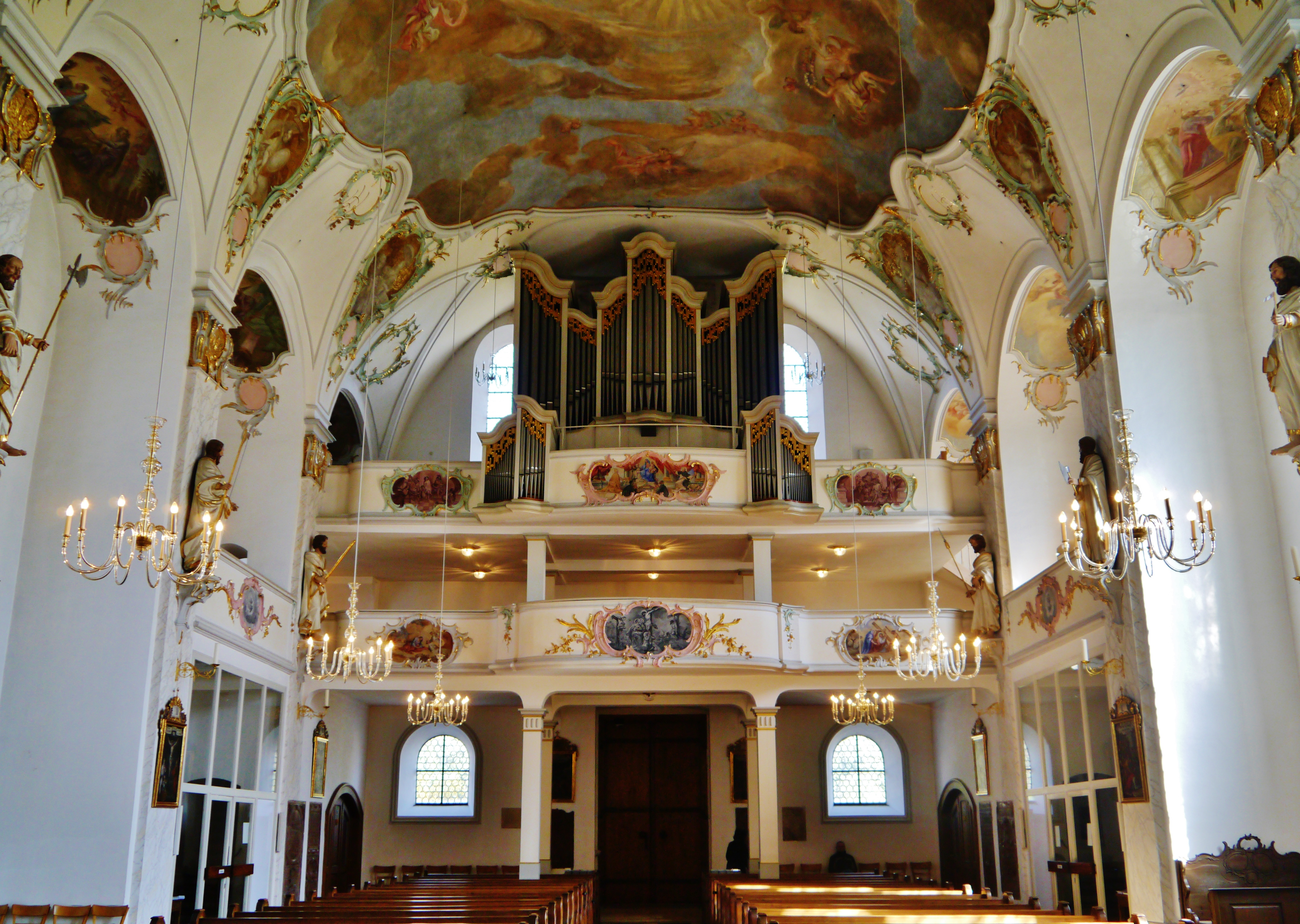 Nave of St. Magdalene, Fürstenfeldbruck, Bavaria, Germany